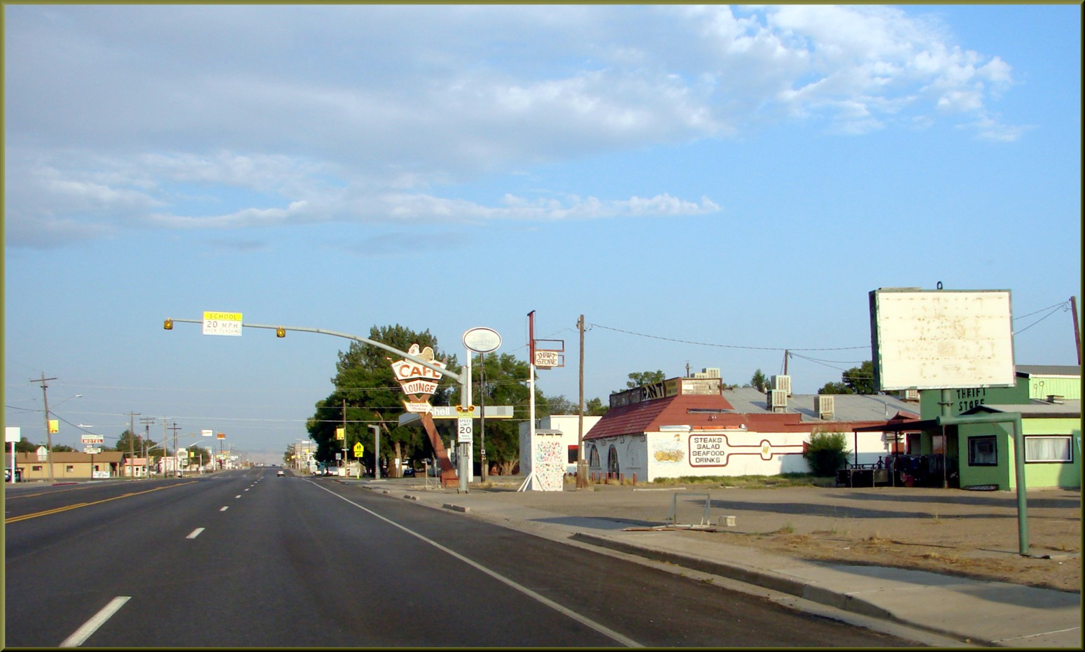 (1 in a multiple picture set) This is the main drag in Green River, UT, just west of the river. Almost every place you see is closed down. The thing that struck me is that the closures seemed fairly recent, as if the town prospered until just recently.